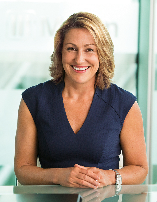 Heather Bresch 2015 Headshot